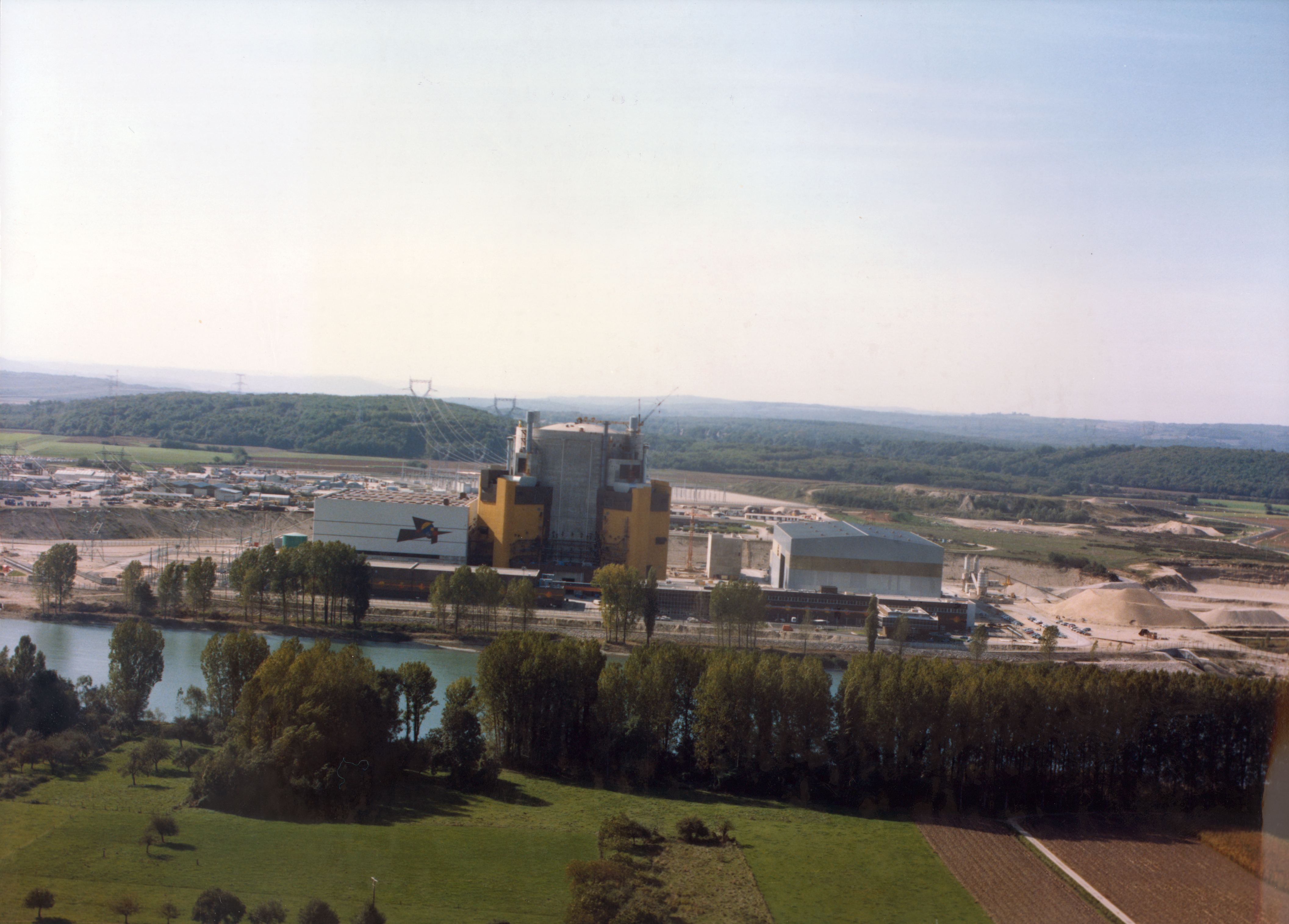 Superphenix nuclear power plant. Creys-Malville, France Photo Credit: IAEA